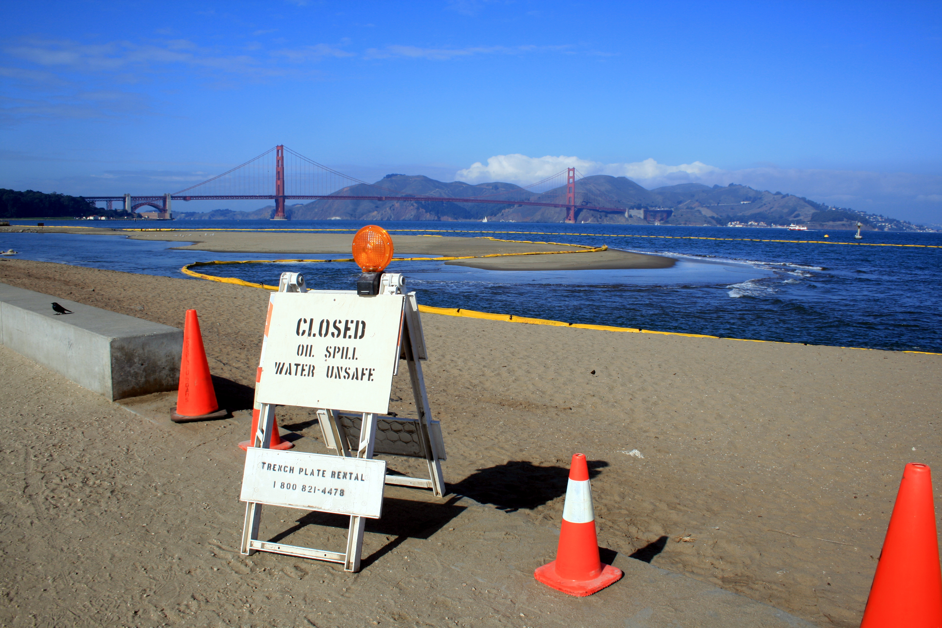 COSCO Busan oil spill along Crissy Field in the San Francisco Bay. About 58,000 gallons of oil spilled from South Korea-bound container ship, COSCO Busan after striking delta tower of the San Francisco-Oakland Bay Bridge in dense fog on 11/07/07. The yellow tubes are called boom and they are used to protect beaches. Golden Gate Bridge is seen at background.